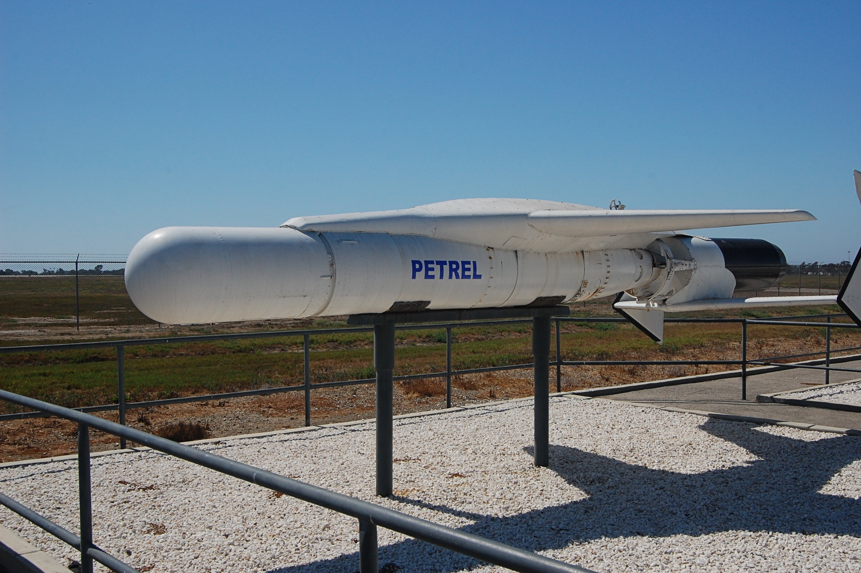 An AUM-N-2 Petrel missile on display at the Point Mugu Missile Park outside of the Point Mugu Naval Air Station.